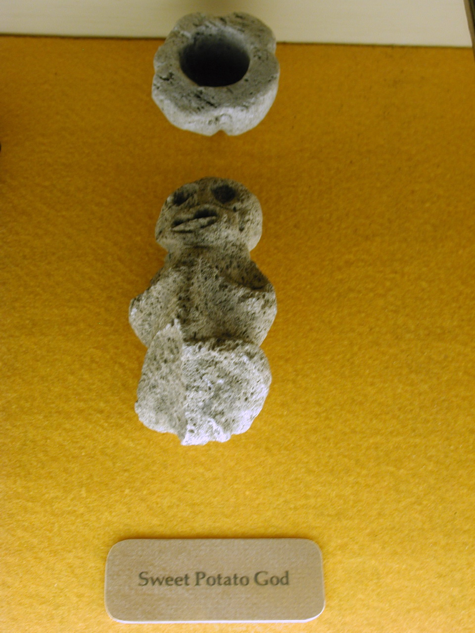 Hawaiian Sweet Potato God possibly Lono